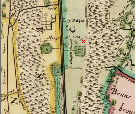 Red X marks the current site of the monument De Naald on early map of Heemstede from 1687. The 'Huis te Manpad' building is shown clearly, and the 'Manpad' footpath runs west to east from Vogelensang across the Leidsevaart past the Herenweg into what is currently Groenendaal park. This footpath in the Groenendaal park still exists today.